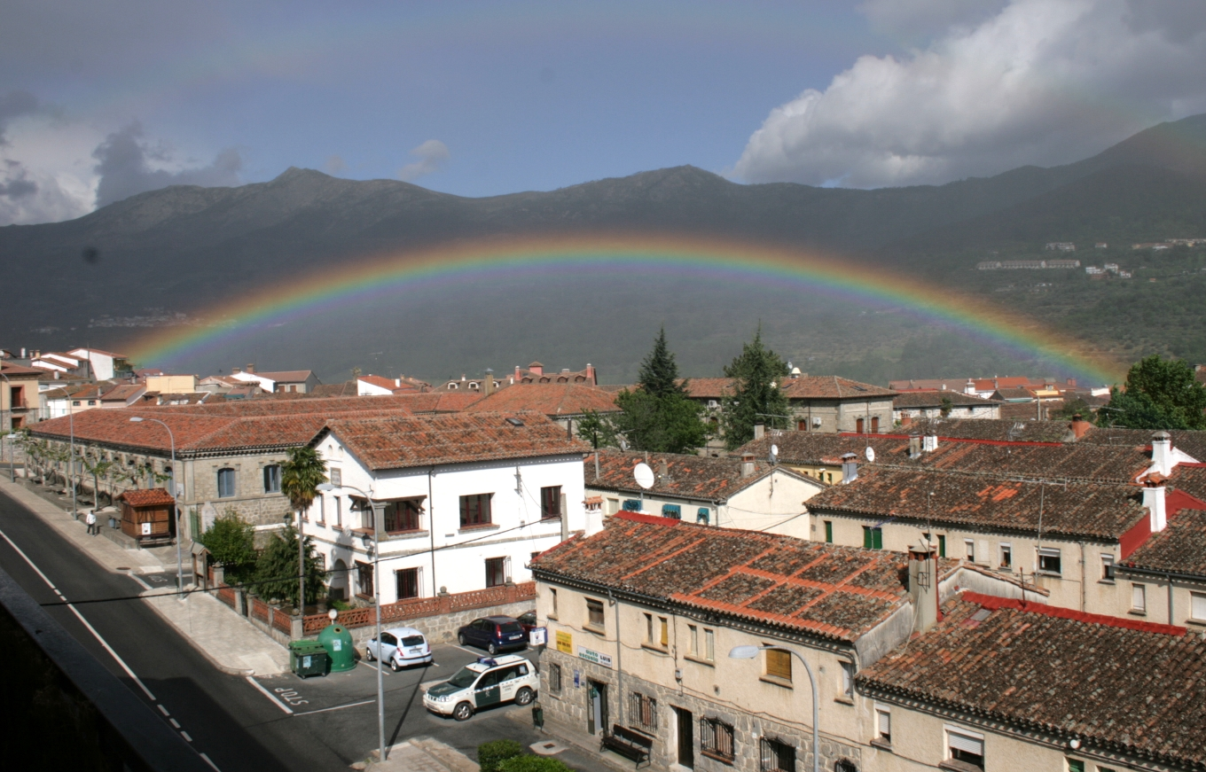 Rainbow over Mombeltrán in the province of Ávila, under the autonomous region Castilla y Léon, Spain.